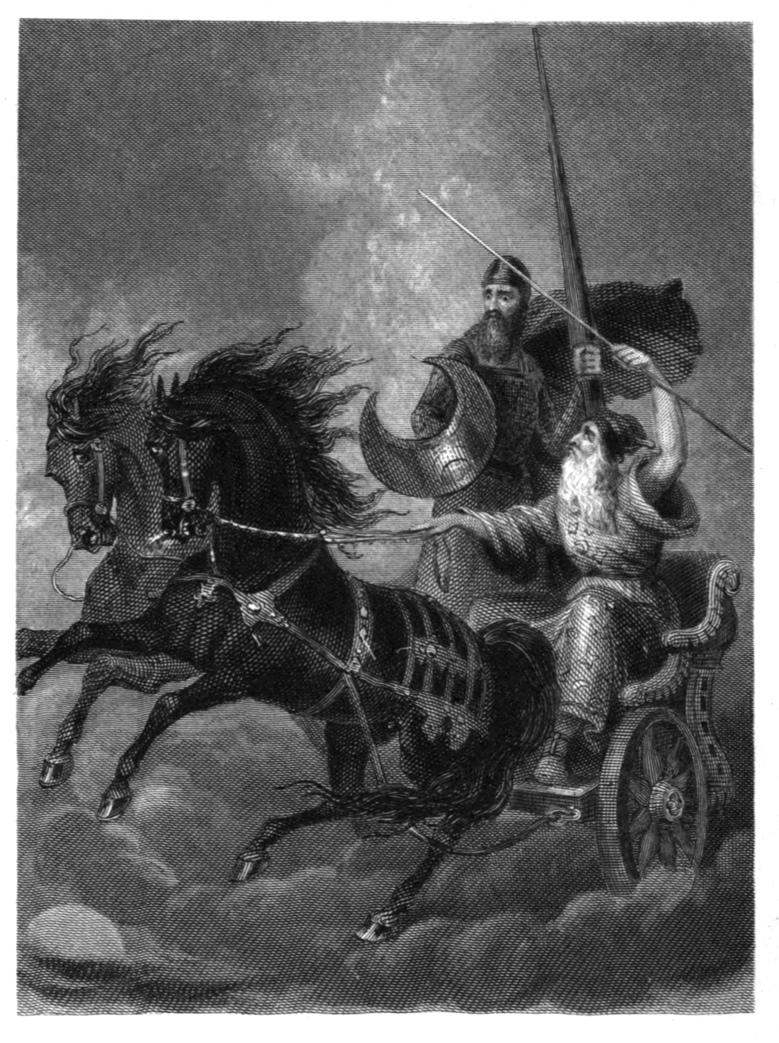 “Merlin and the Knight,” an engraving from a gift book published in 1847